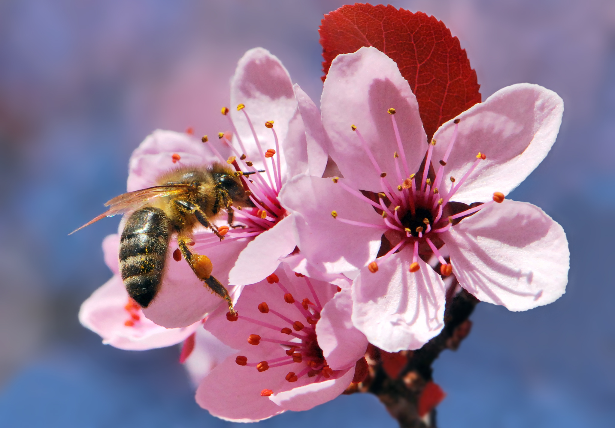 This picture shows the bee species apis mellifera on the blossom of prunus cerasifera (red-leafed).